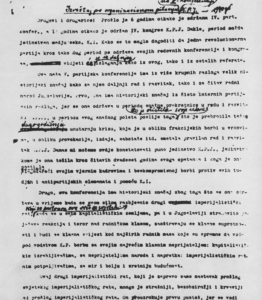 Izvještaj po organizacionim pitanjima što ga je na Petoj zemaljskoj konferenciji KPJ podnio Josip Broz Tito